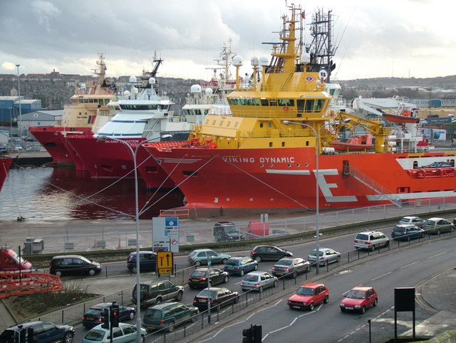 The VIKING DYNAMIC and other tugs in Aberdeen Harbour These Norwegian Ships docked in Aberdeen Harbour were photographed from Shiprow. Virginia Street lies in the foreground. IMO Number: 9244568 MMSI Number: 258591000 Callsign: LLTN Length: 90 m Beam: 19 m